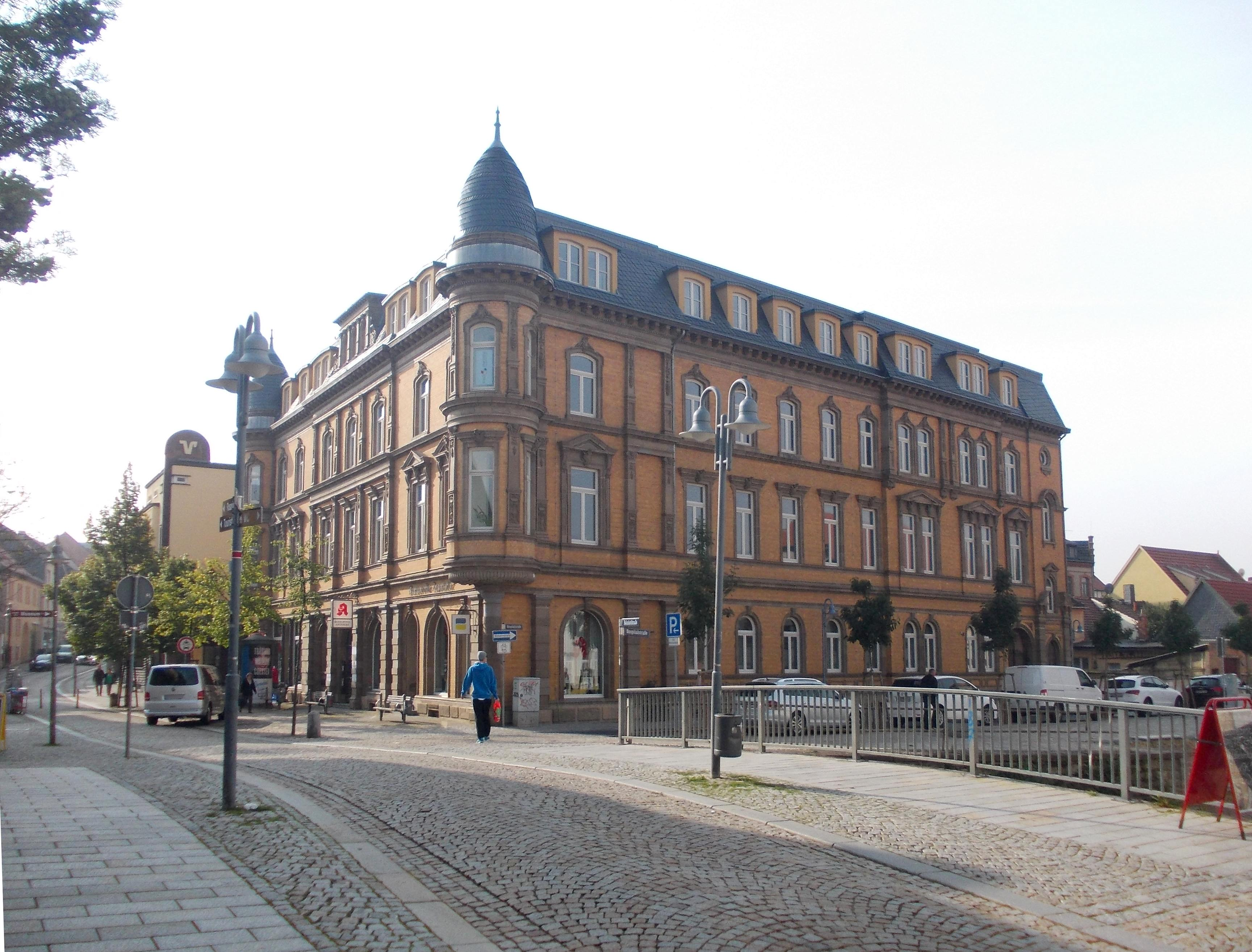 So-called Oxen Palace (No. 37, Göpenstrasse) in Sangerhausen (Mansfeld-Südharz district, Saxony-Anhalt)